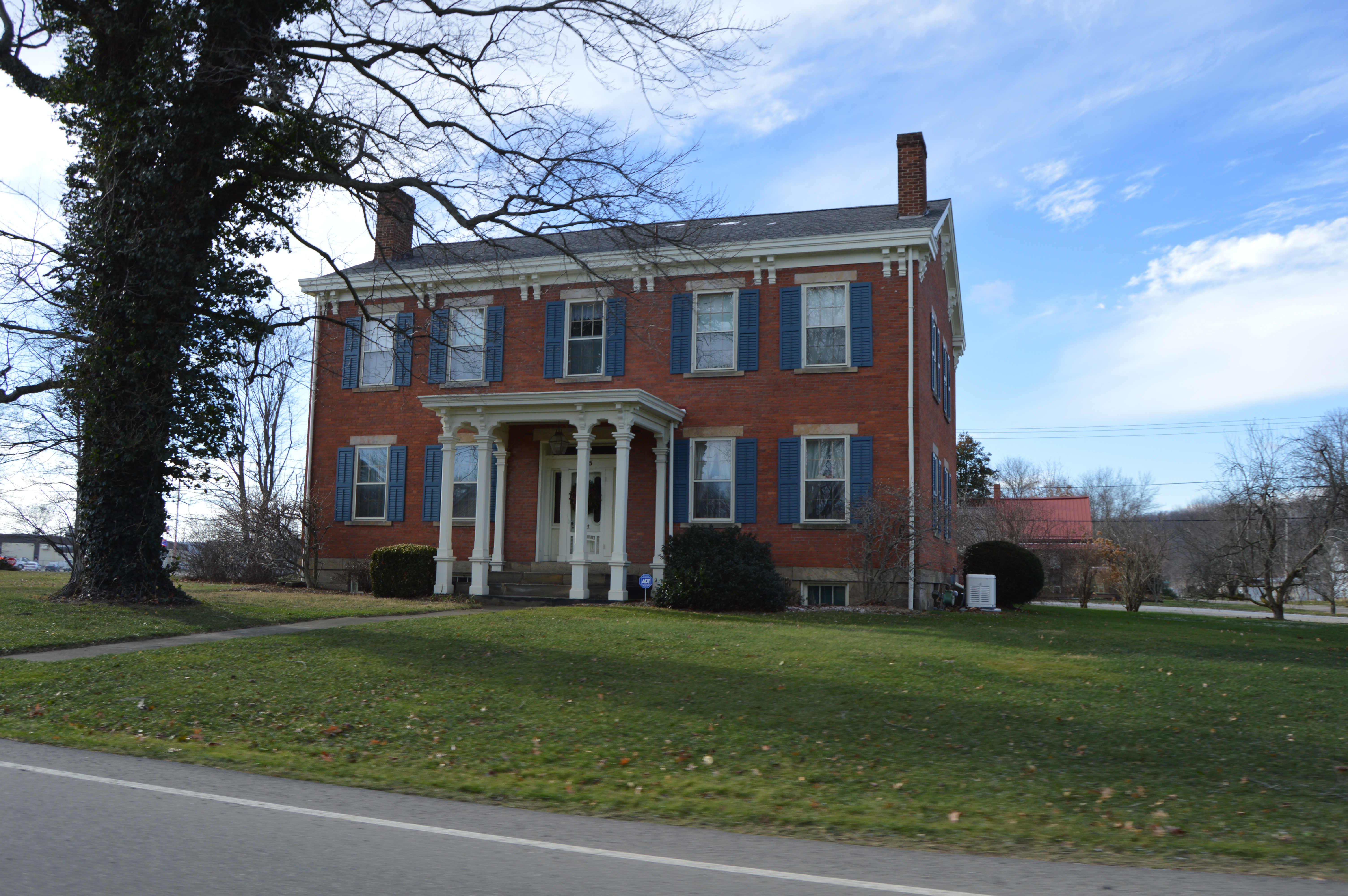 Front of one of the Lamberson-Markley Houses, located at 713 Main Street in Canal Lewisville, Ohio, United States. Built in 1842, it is listed on the National Register of Historic Places.